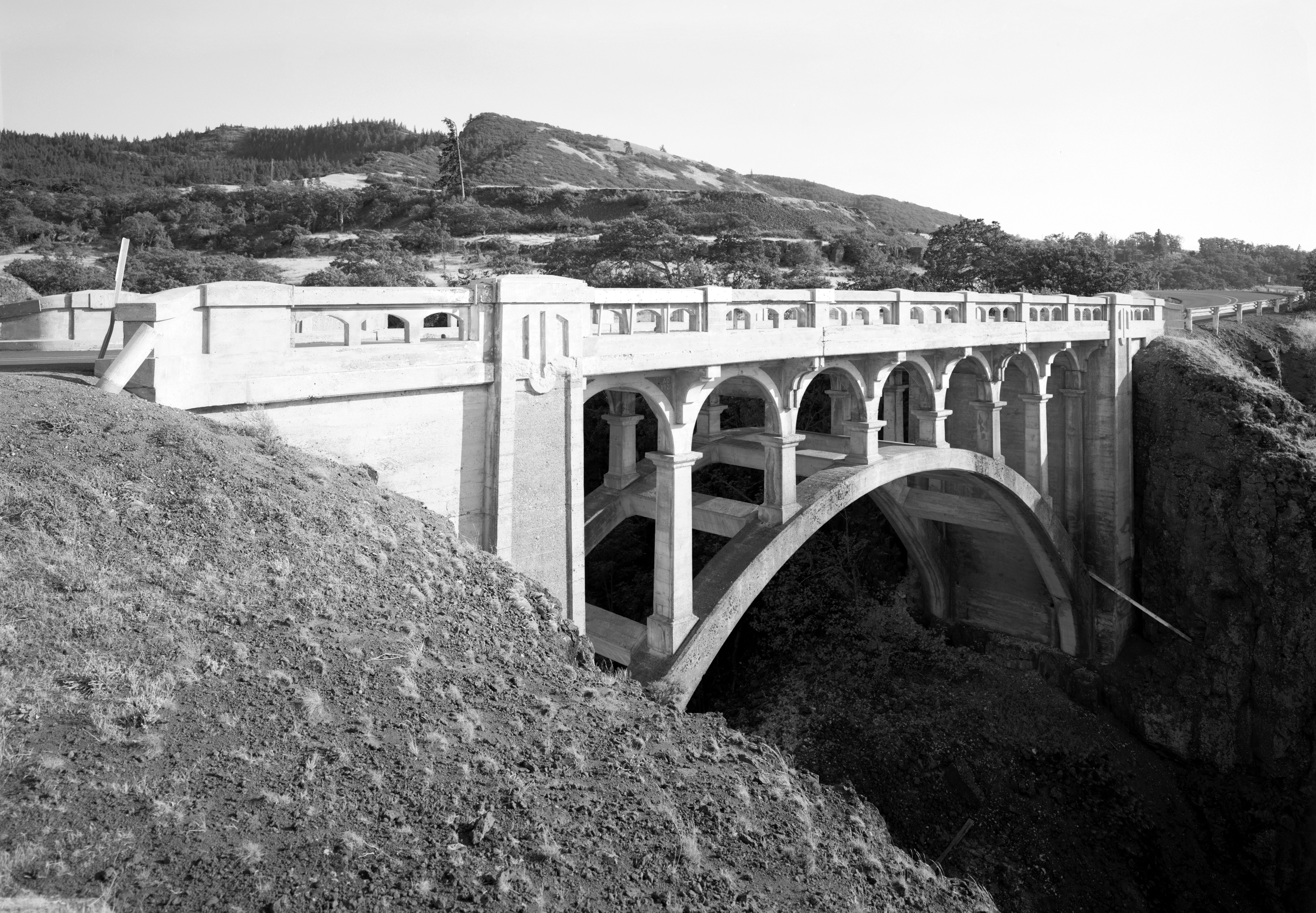 Dry Canyon Creek Bridge: Perspective view from northeast